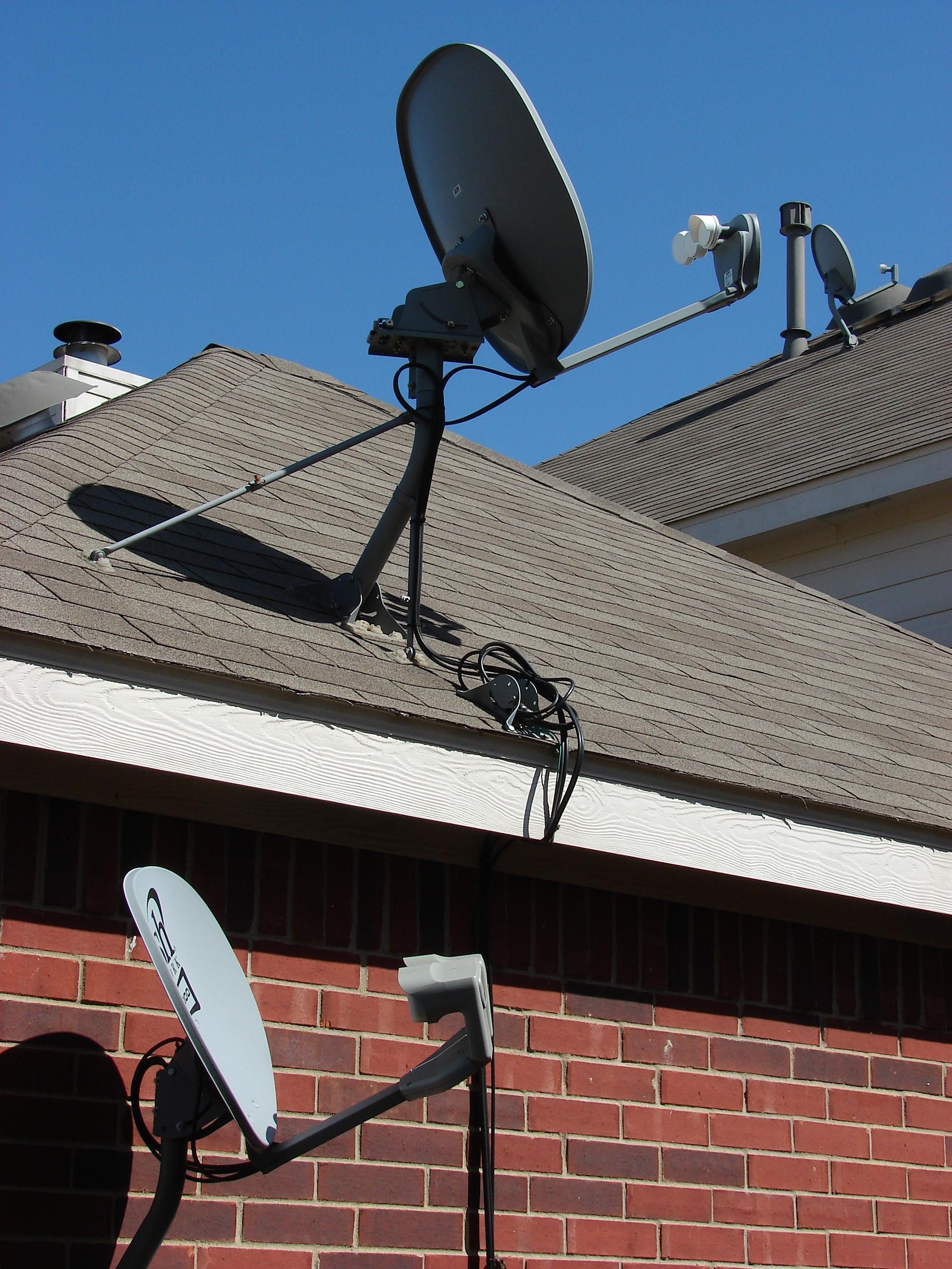 Residential satellite TV dish receivers.